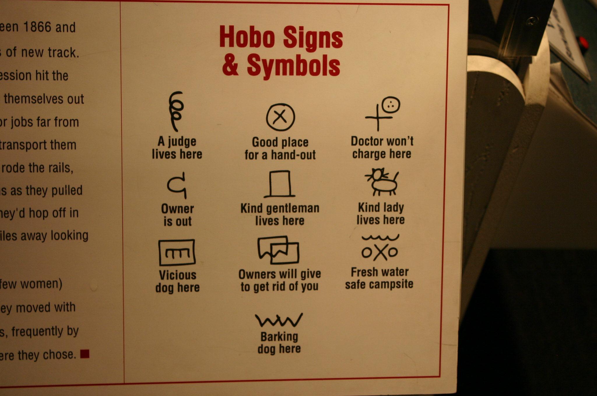 Signs and symbols used by hobos for communication. This photo was taken at the National Cryptologic Museum.